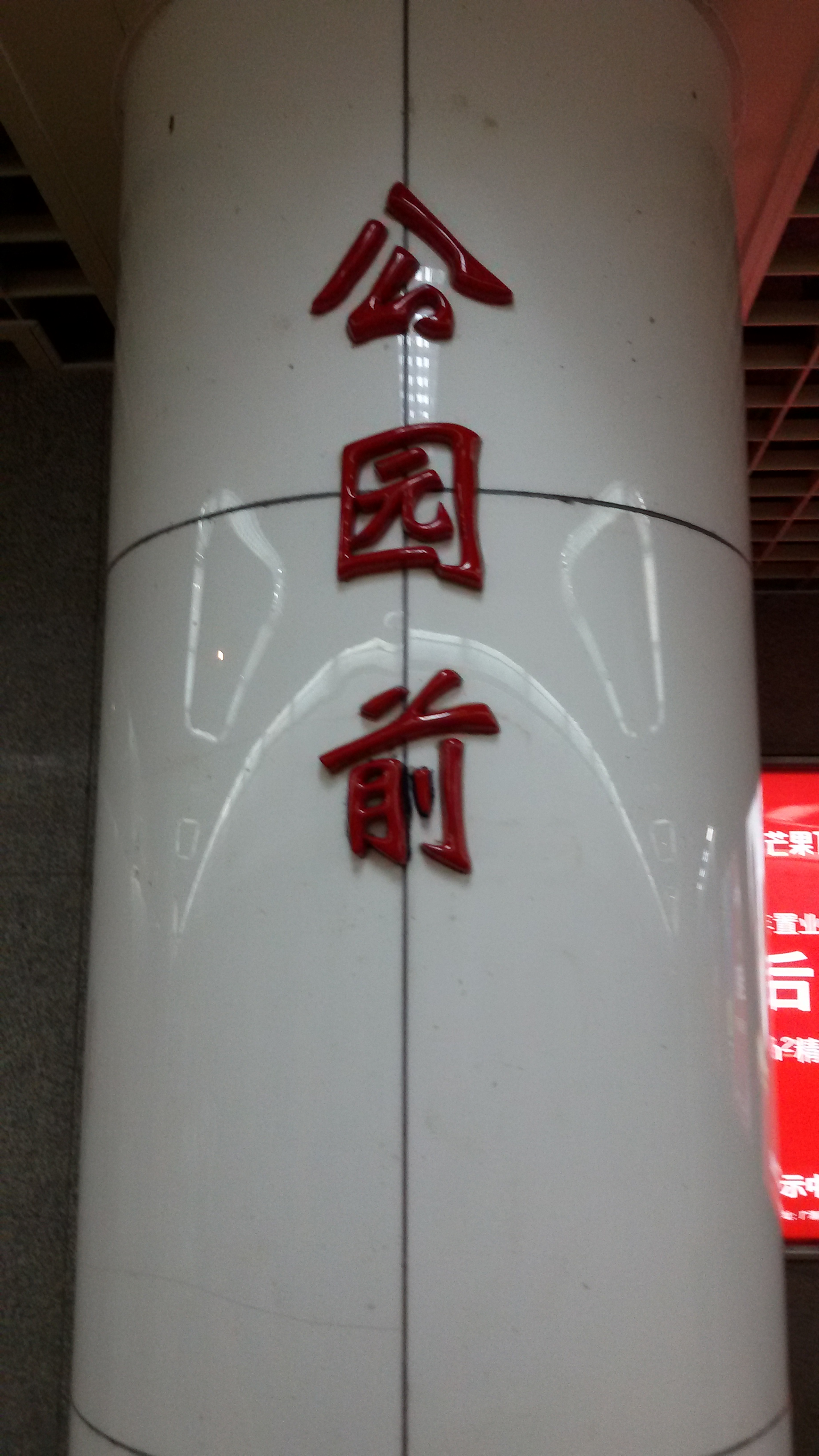 Word on pillar for Line 1 in Gongyuanqian Station, Guangzhou Metro